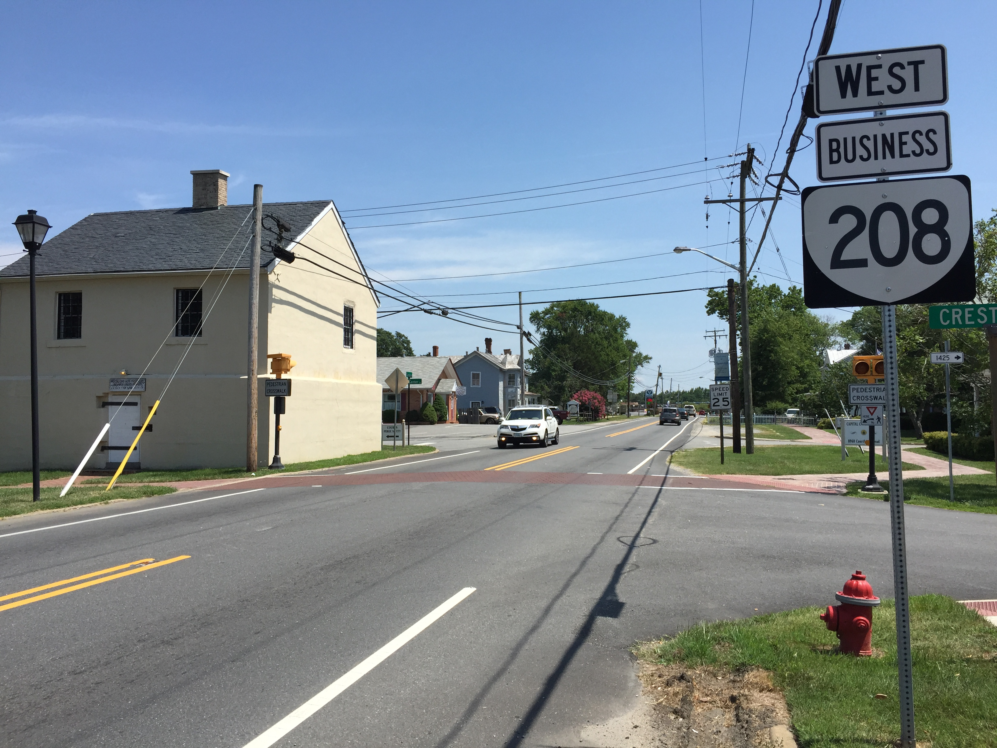 View west along Virginia State Route 208 Business (Courthouse Road) at Crestar Drive in Spotsylvania Courthouse, Spotsylvania County, Virginia